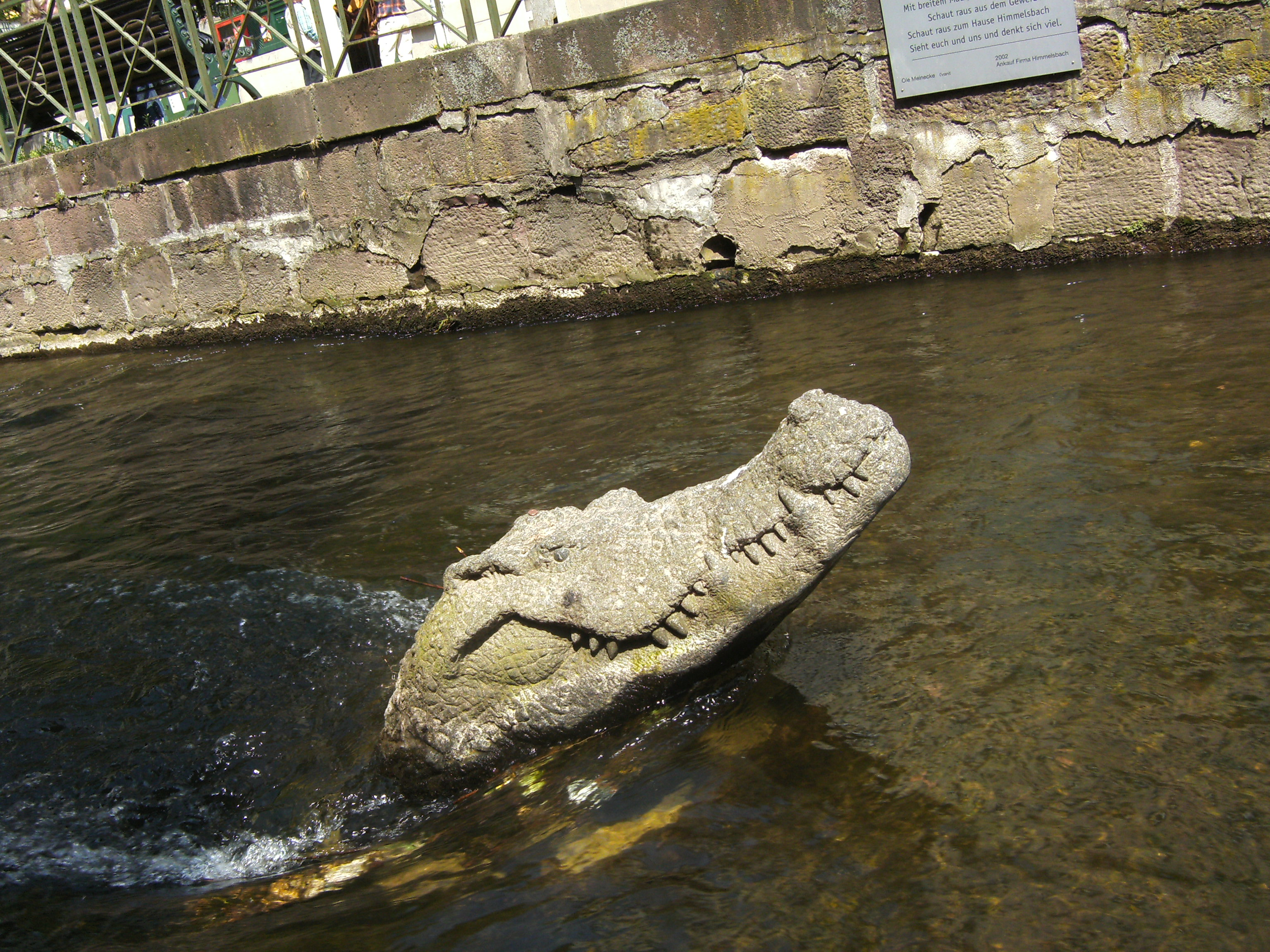 Krokodile. Sculpture of german artist Ole Meinecke. Material: Diorite. Mounted in Gewerbekanal Freiburg, donation by Laundry Himmelsbach.